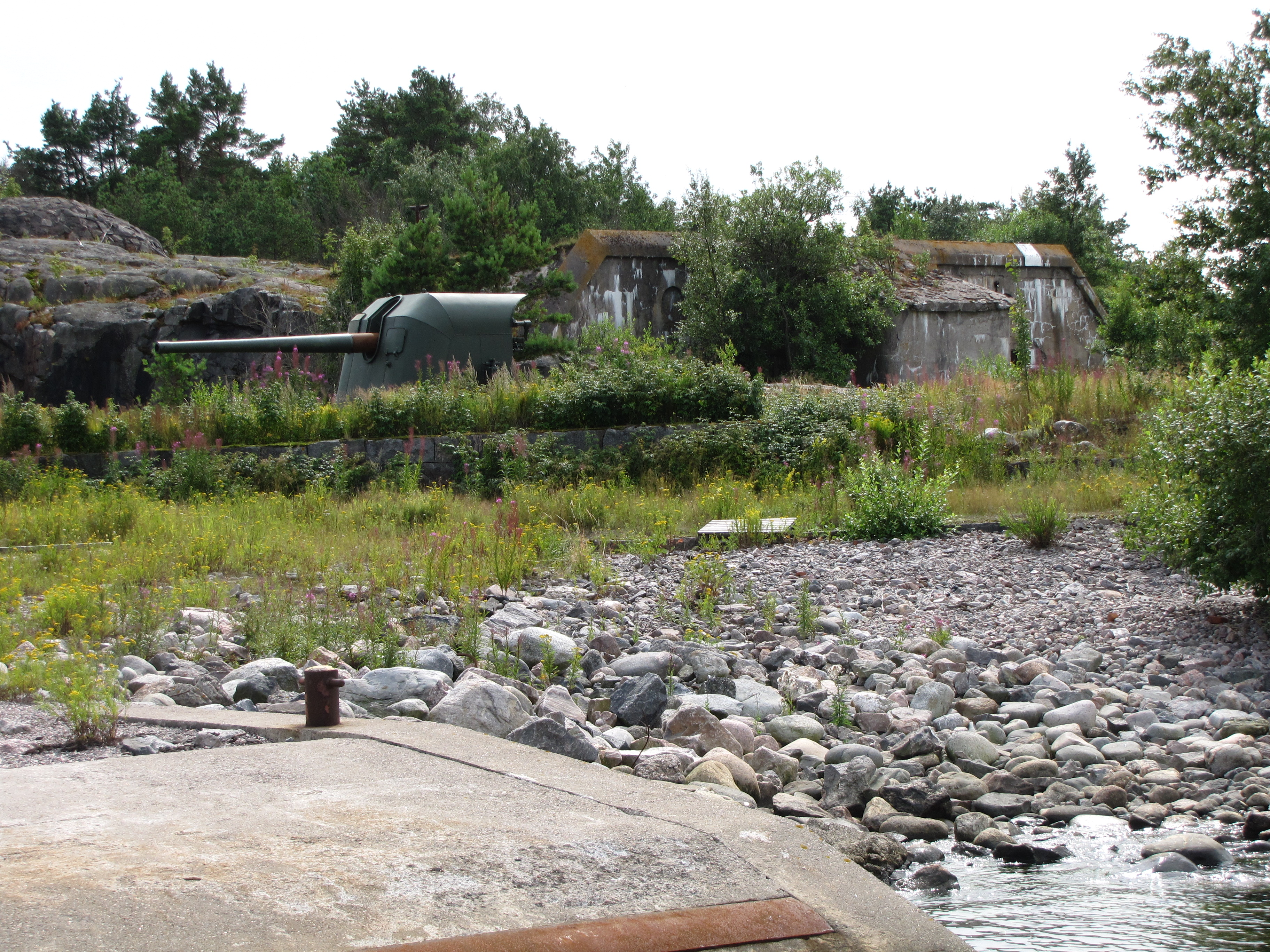 130 mm 50 calibre coastal gun on display in front of the Kuivasaari mine control bunker from World War I. This gun is a Soviet Union 130 mm gun B-13 that was captured by finns in World War II.